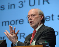 Phillip Allen Sharp (born June 6, 1944)